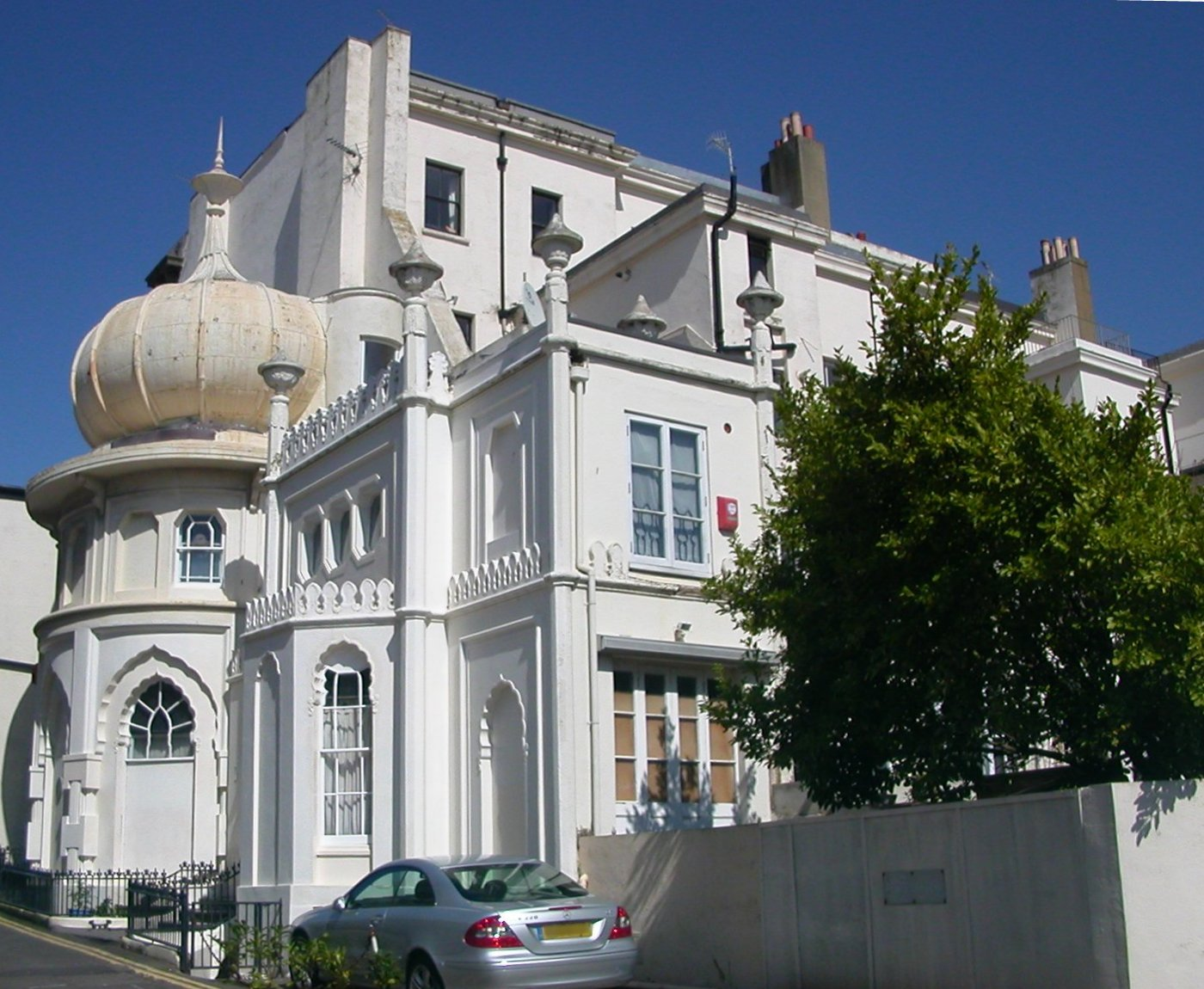 The Western Pavilion, 9 Western Terrace, Brighton, City of Brighton and Hove, England. Built in 1827–28 for Amon Henry Wilds as his Brighton home.